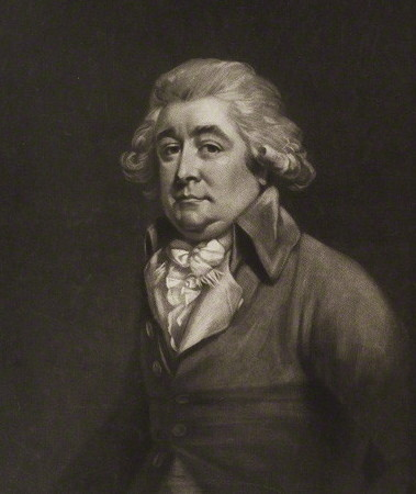 Charles Bannister Comedian by and published by John Raphael Smith, after Mather Brown, mezzotint, published 1789